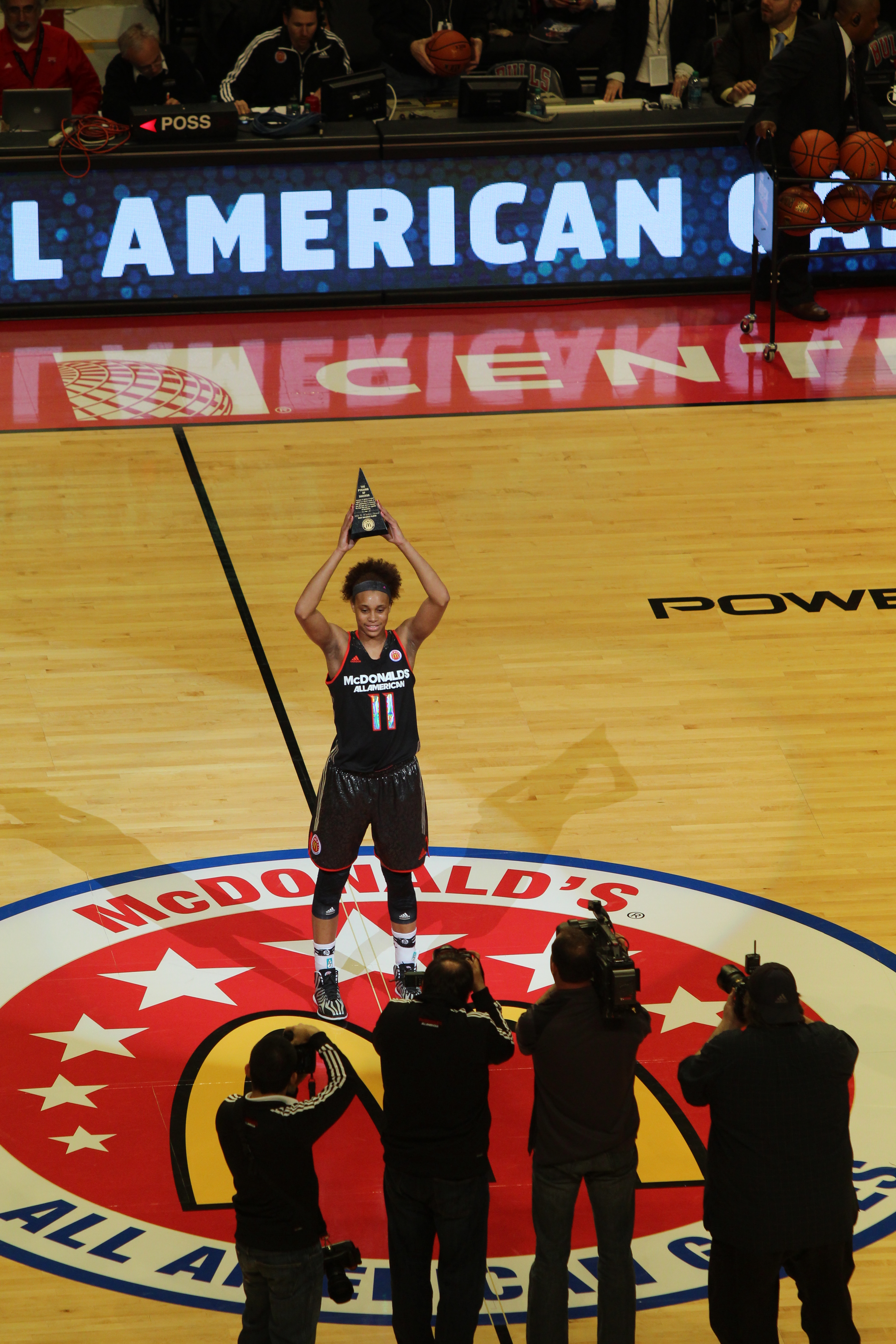 Brianna Turner as the w:2014 McDonald's All-American Girls Game MVP